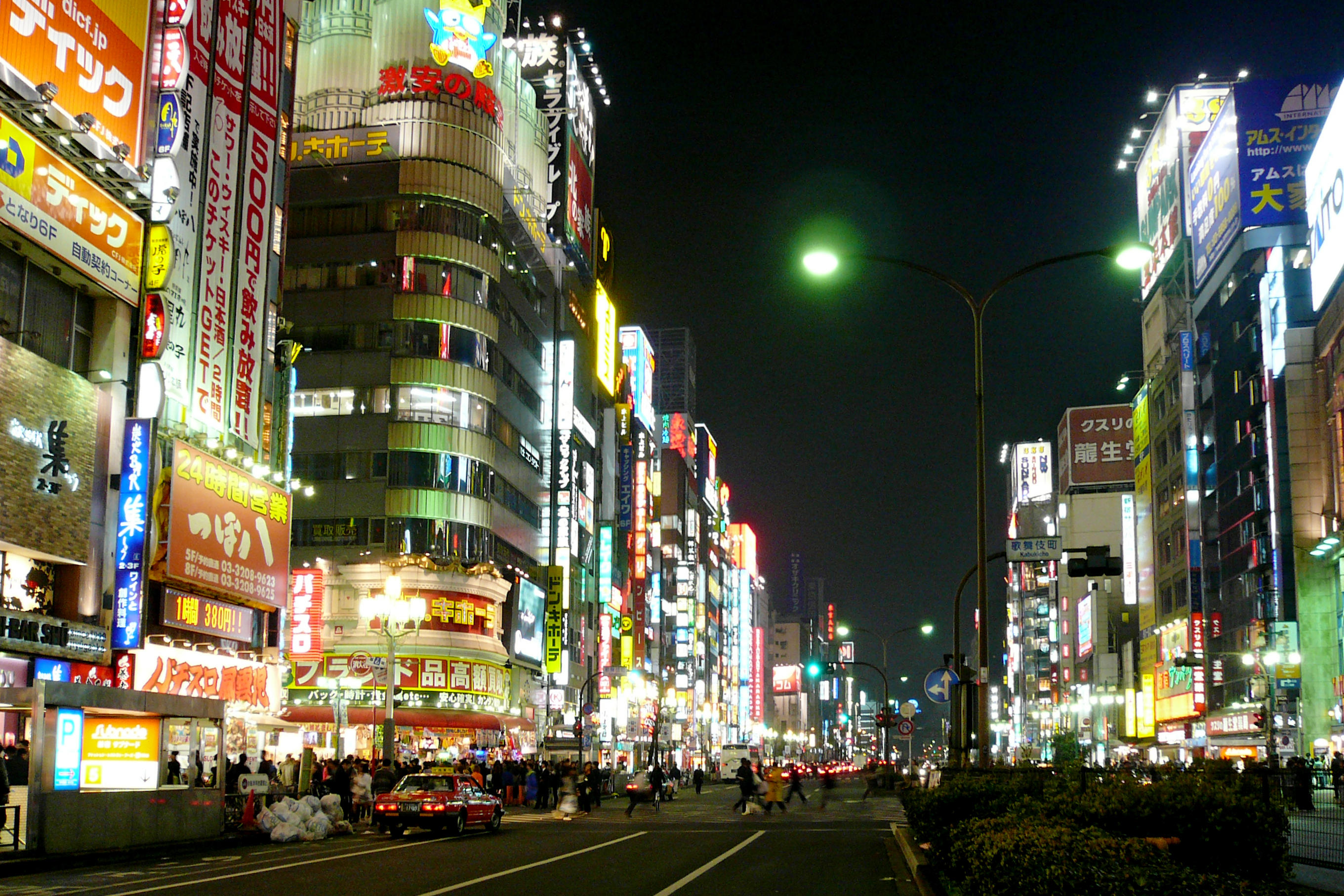 Shinjuku in Shinjuku-ku, Tokyo, Japan